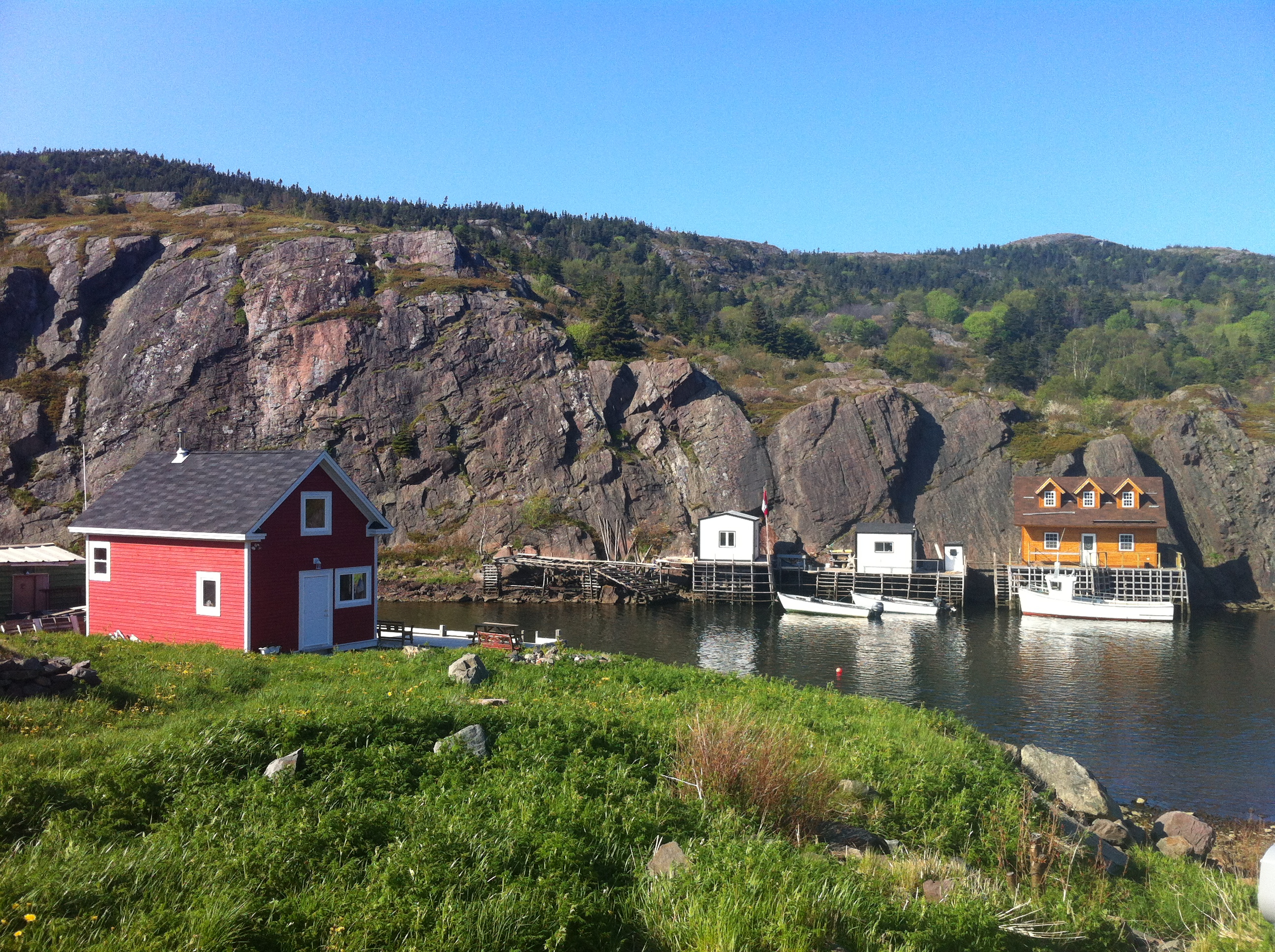 Waterside, St. John's, Canada